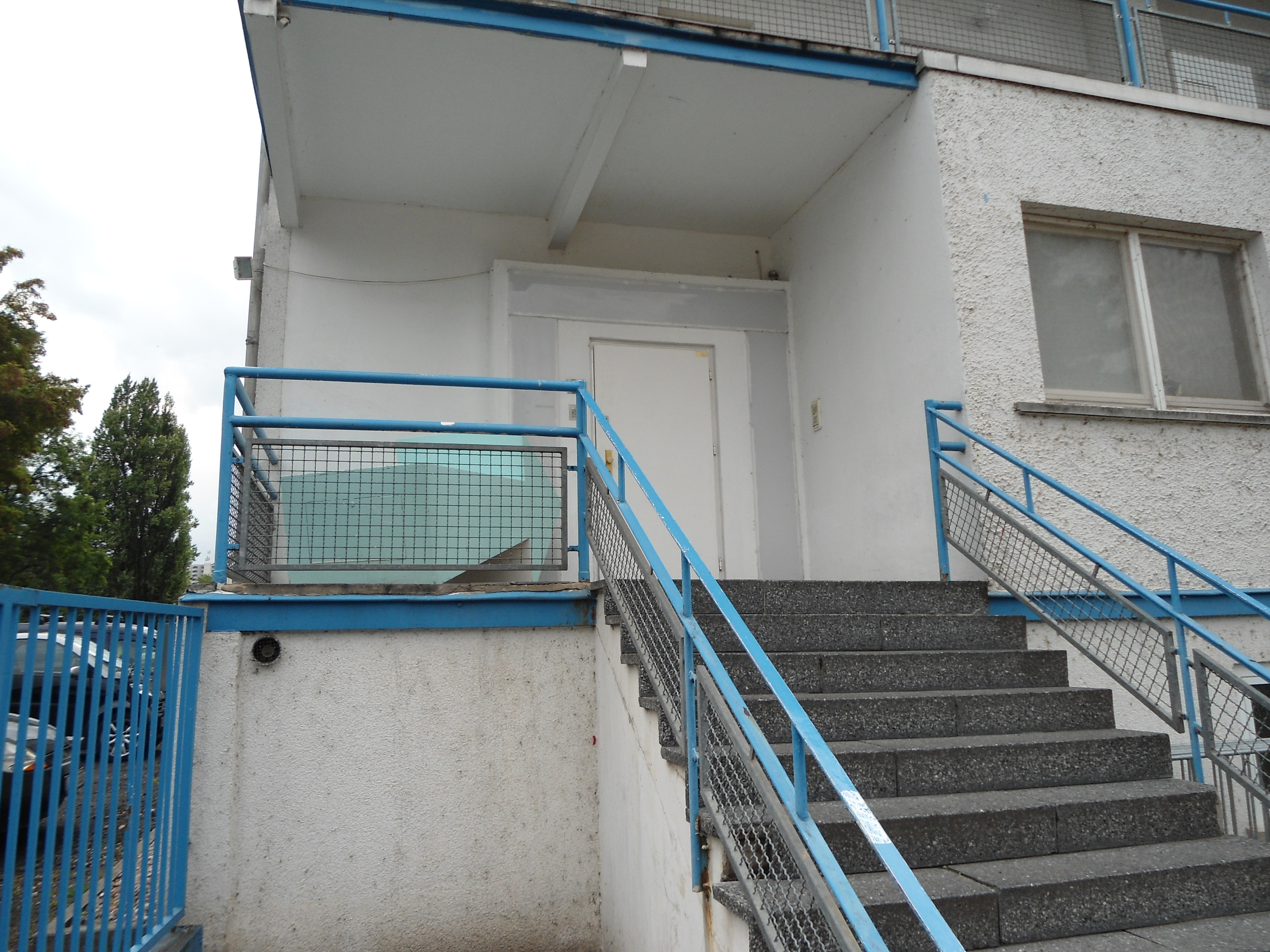 The door of "Robert Johnson"-Club in Offenbach at day.